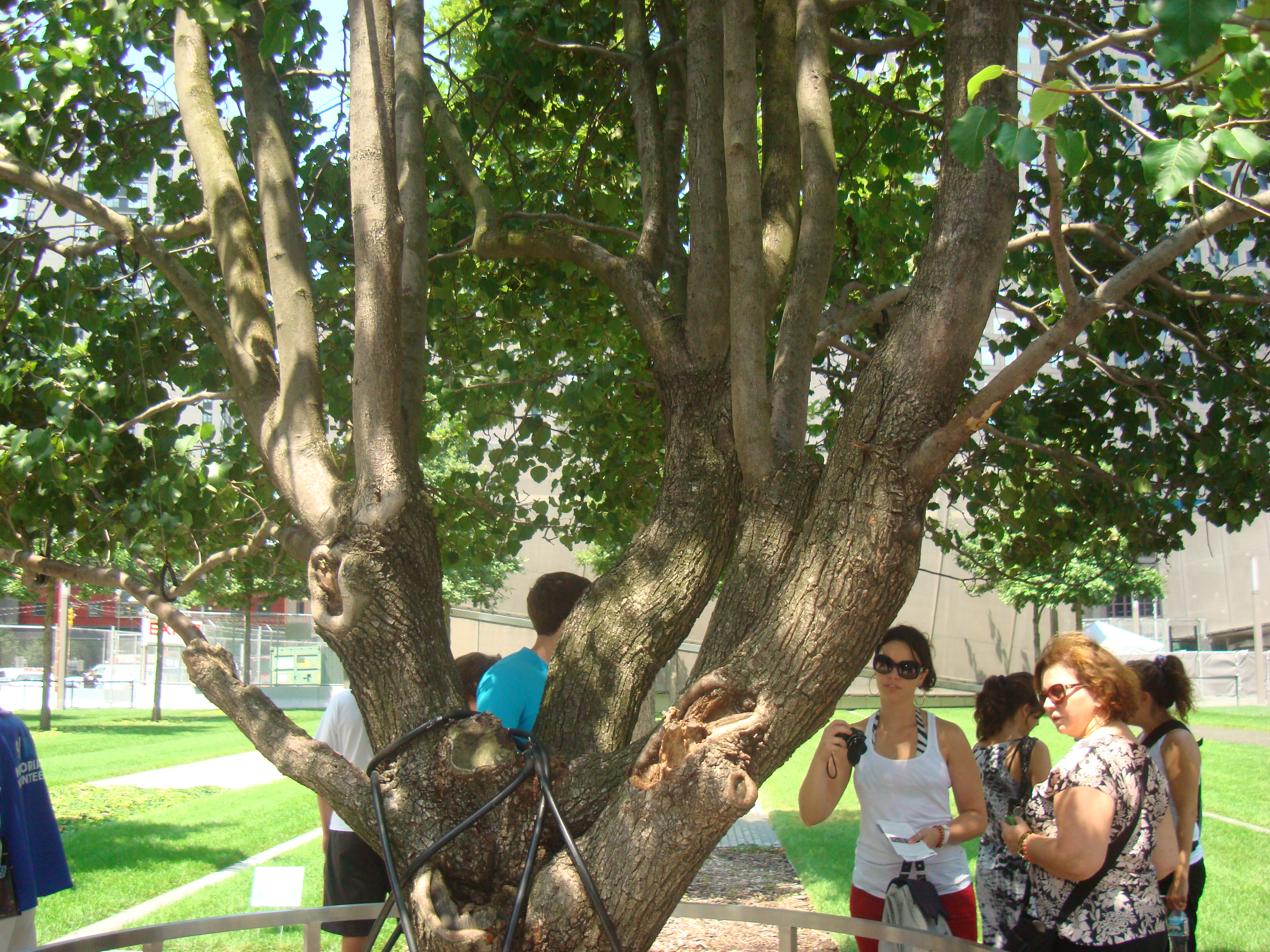 The Survivor Tree, a Callery Pear tree, at Ground Zero, Lower Manhattan, New York City. Note that at about the level the leaves hang down, one can easily see the change from the old growth that survived the 9/11 attacks and the new growth afterwards.